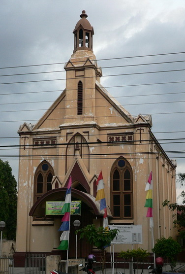 The original kerk is still served as a church namely GPIB (Gereja Protestan di Indonesia bagian Barat)